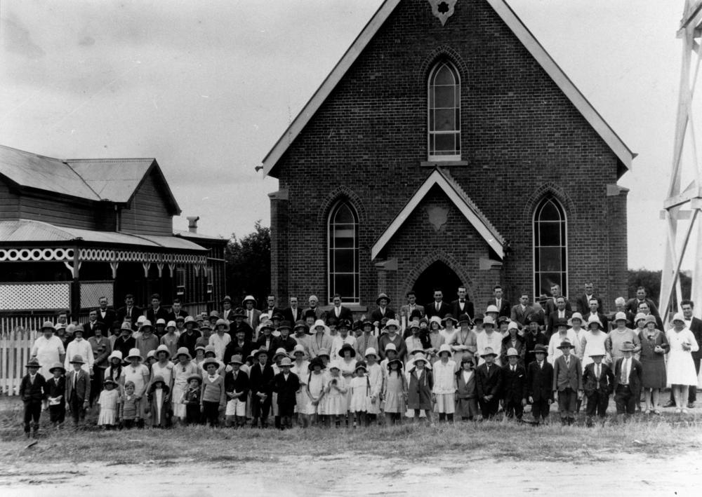 Church of Christ at Charters Towers in 1930 Situated on the corner of Anne and High Streets at Charters Towers, it was constructed in 1885/6 as the Lutheran Church St Johanne's (Johanneskirche). It was acquired by the Church of Christ around 1916.